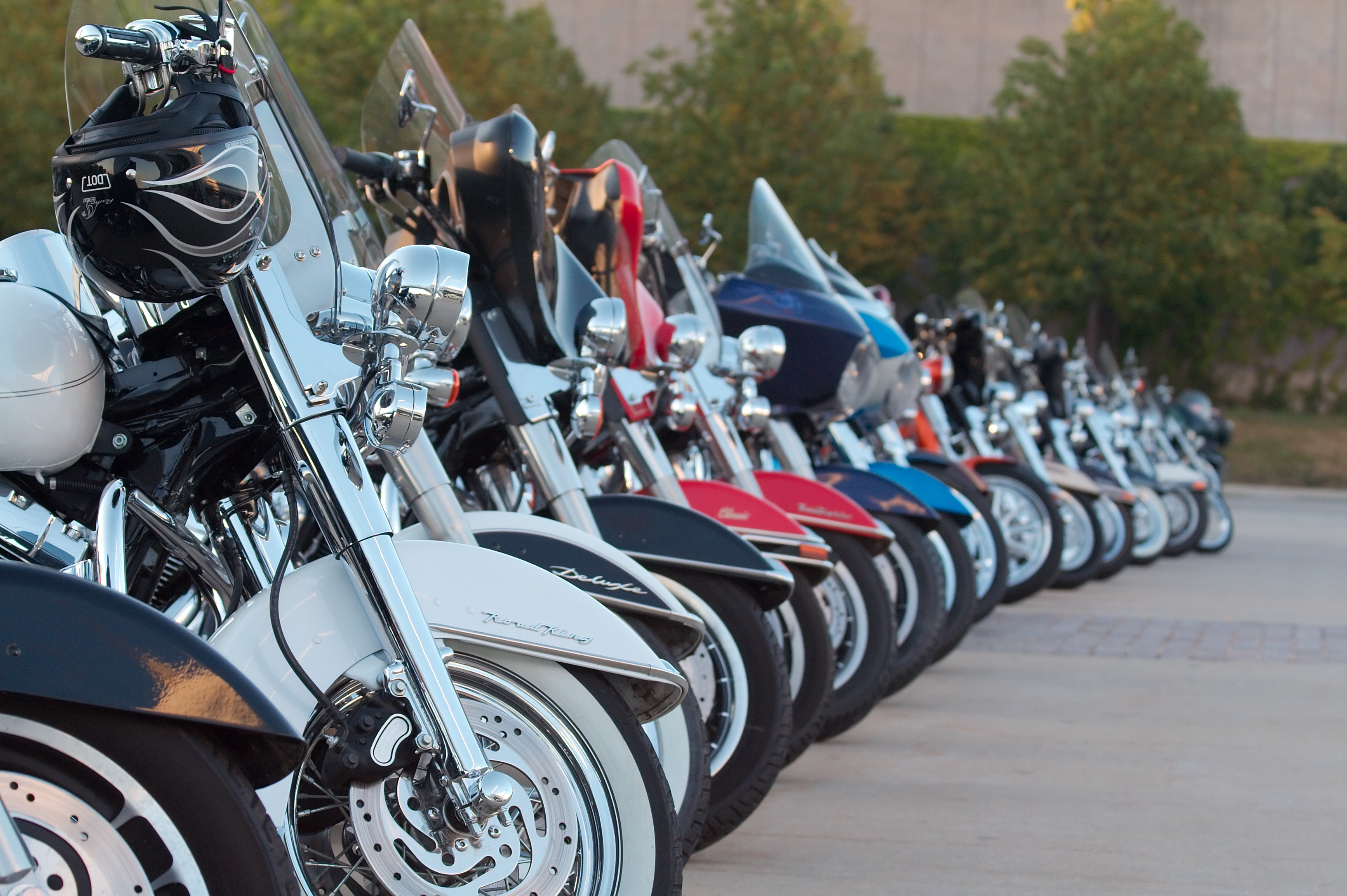 Parked motorcycles during Harley-Davidson's 105th anniversary in Milwaukee, Wisconsin